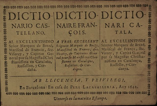 Own picture of the book Dictionario castellano... Dictionaire françois... Dictionari catala. Barcelona 1642. Author: Pere Lacavalleria (1642)